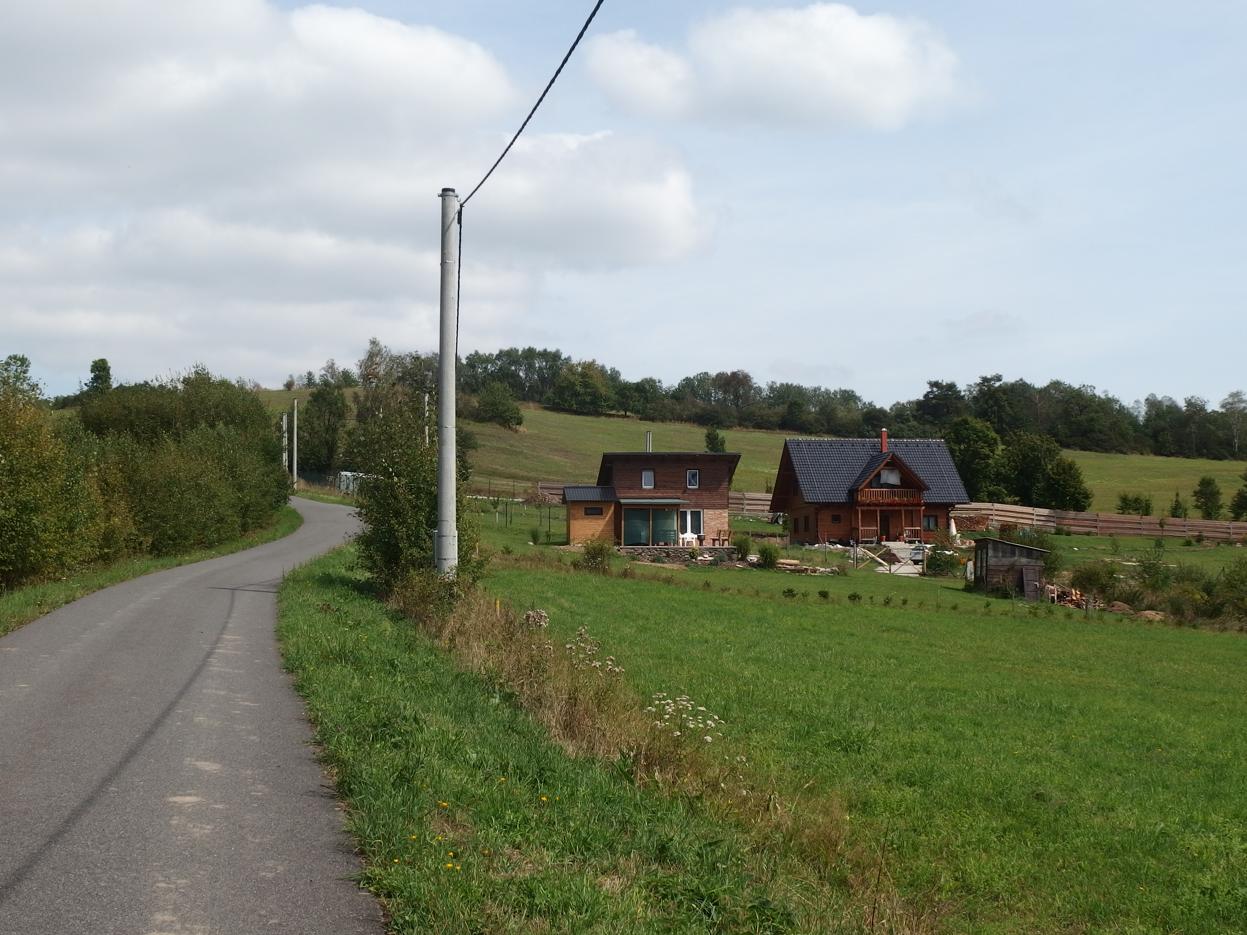 Maletín, Šumperk District, Czechia, part Nový Maletín.